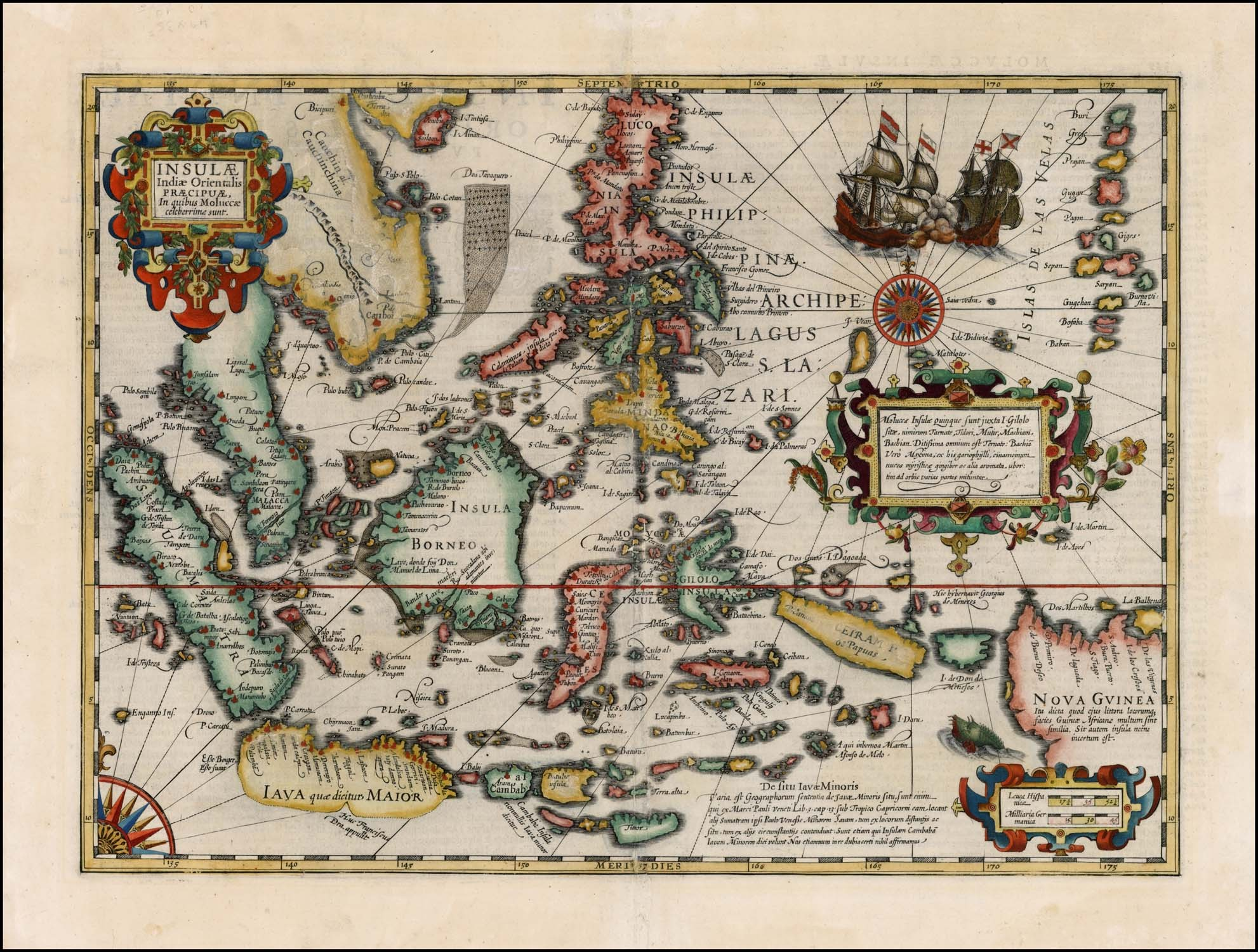 Map of the East Indies by Jodocus Hondius in 1606